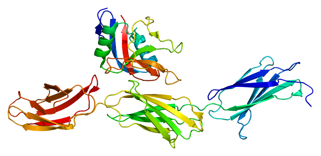 Structure of the ACAN protein. Based on PyMOL rendering of PDB 1tdq.